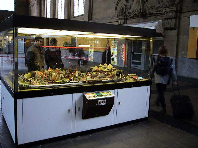 Mike Chapman - public domain March 2001 - Worms Wiesbaden, Germany train station